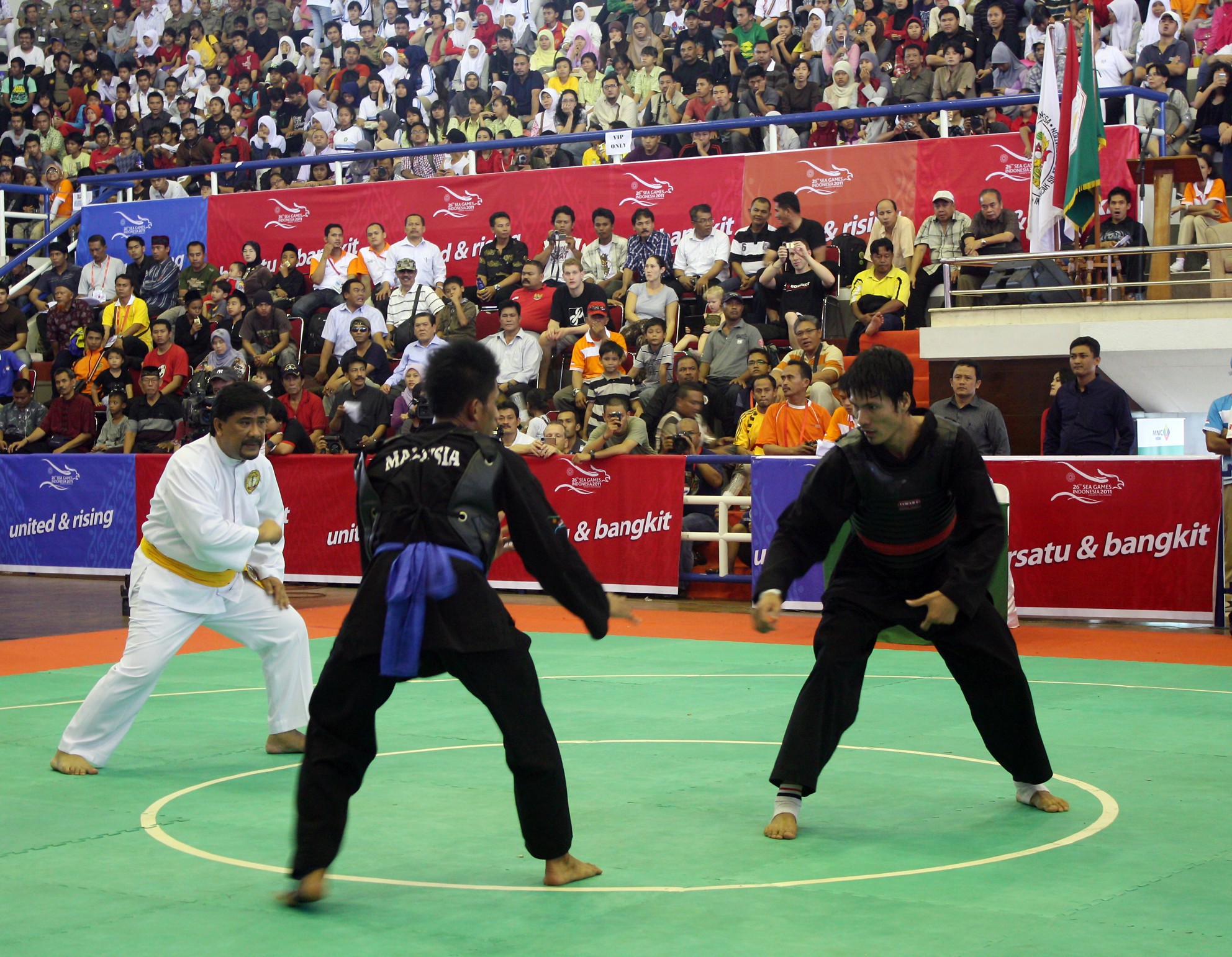 The Pencak Silat final match for category Men Class E 65kg - 70kg. In left Al Jufferi (Malaysia - Gold medal) vs Nguyen Duy Chien (Vietnam - Silver medal). 17 November 2011 in 26th Southeast Asian Games 2011 at Padepokan Pencak Silat Taman Mini Indonesia Indah, East Jakarta, Indonesia.